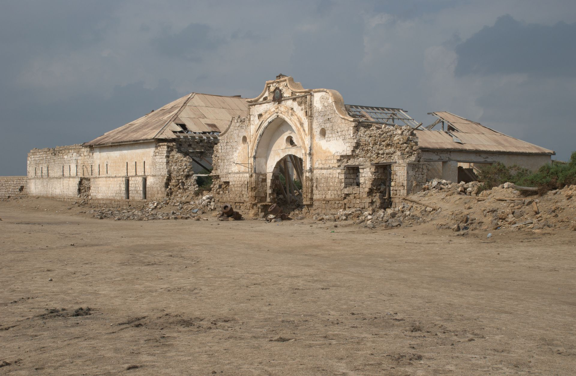 Ruins of custom office - Suakin, Sudan.